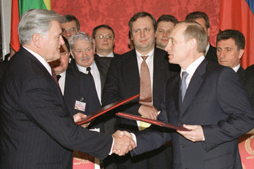 THE KREMLIN, MOSCOW. President Putin and his Lithuanian counterpart, Valdas Adamkus, signing a joint statement following Russian-Lithuanian talks.